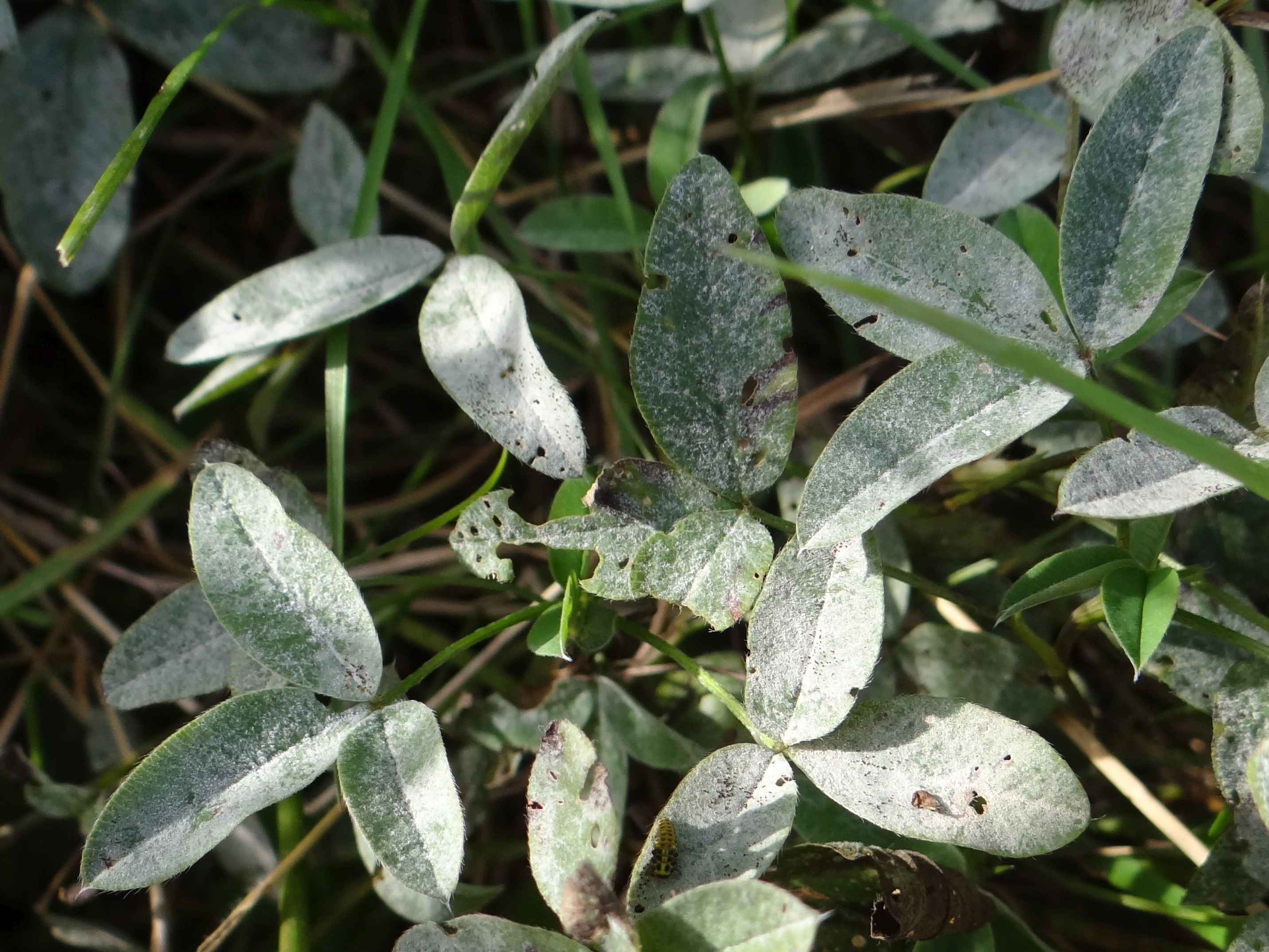 Erysiphe trifolii on Lotus corniculatus